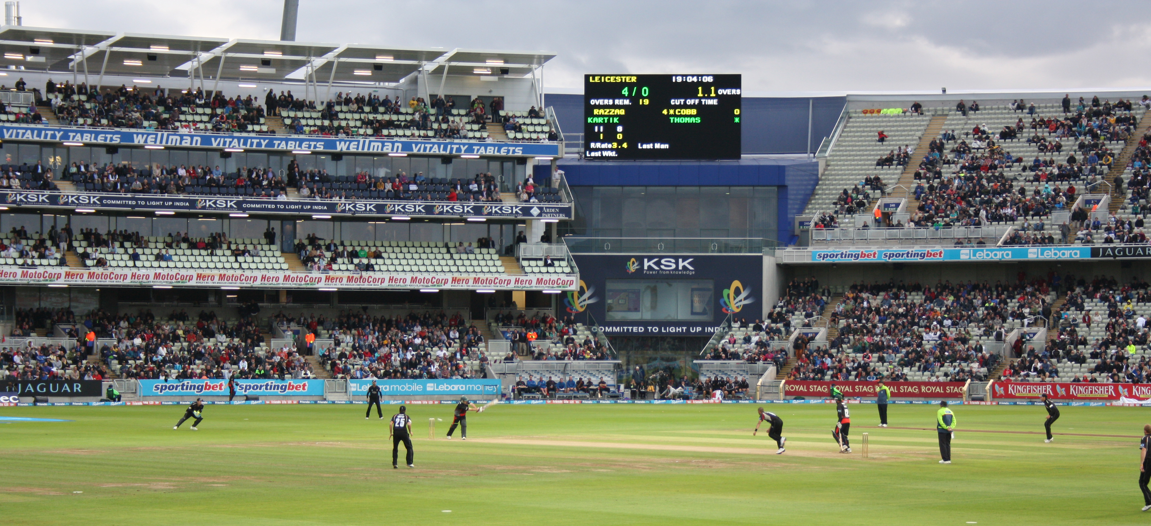 The 2011 Friends Life t20 final was held at Edgbaston Cricket Ground in Birmingham, and was between Leicestershire Foxes and Somerset. Alfonso Thomas of Somerset is bowling at Joshua Cobb of Leicestershire.